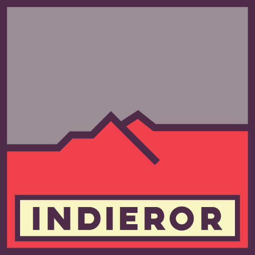 The Image is the logo of the INDIEROR Association. Represents the name of the organization with the mountains of our region, adding the two words "Indie" and "Ror".